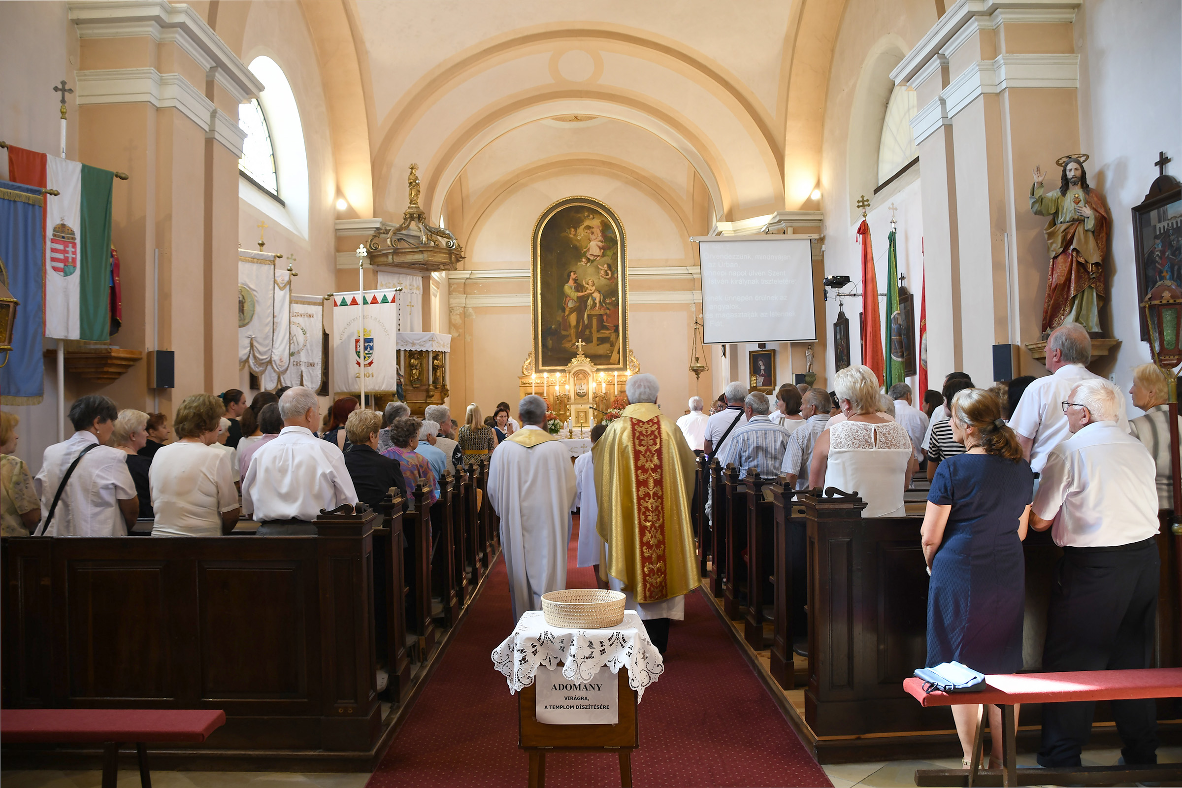 Holy mass in the Saint Joseph Church of Abda on Saint Stephen's Day